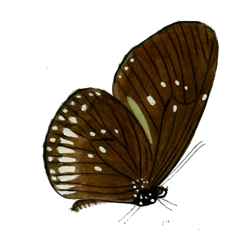 Penoa limborgii = Euploea algea